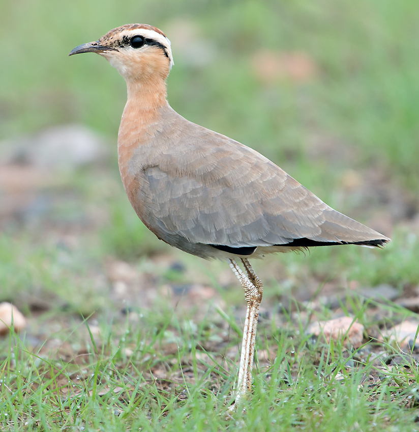 Indian Course (Cursorius coromandalicus) is a widespread resident in the plains of Indian Sub Continent. Seen in Sonkhaliya, Rajasthan.